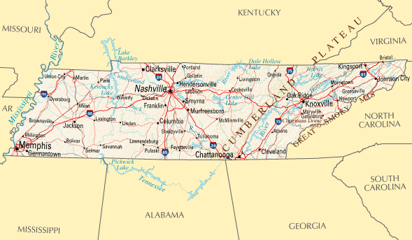 Cropped version of Image:National-atlas-tennessee.PNG, from the US National Atlas.